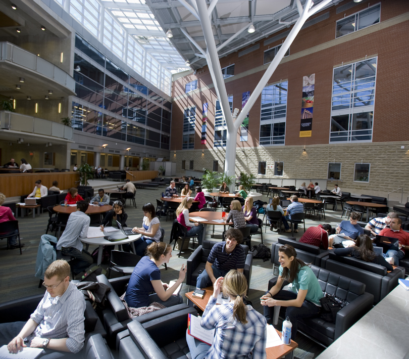 Science complex atrium at the University of Guelph.